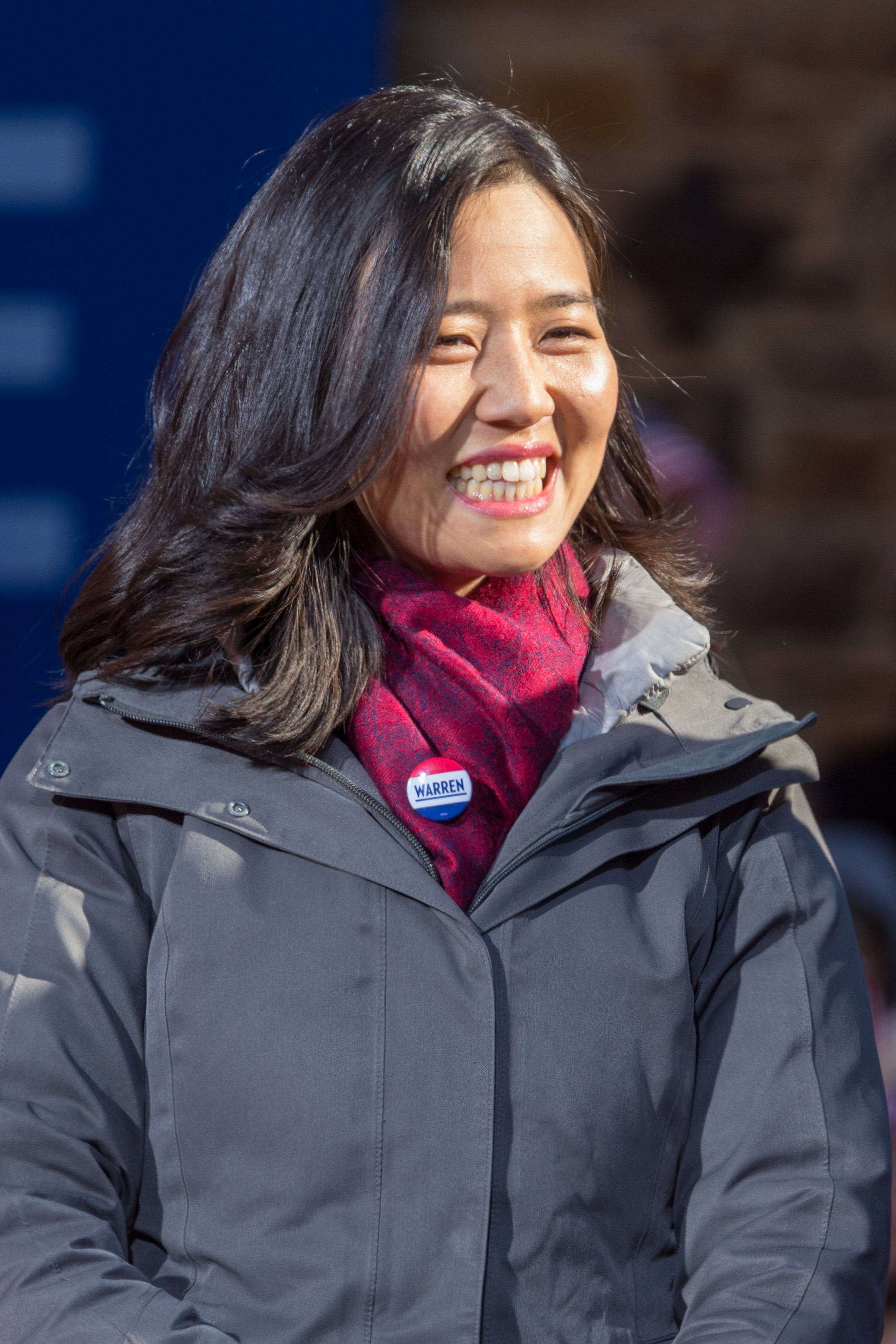 Michelle Wu, Boston City Council Member, wears a button supporting Elizabeth Warren for President. Taken at the Warren campaign announcement in Lawrence, Massachusetts, February 9, 2019.